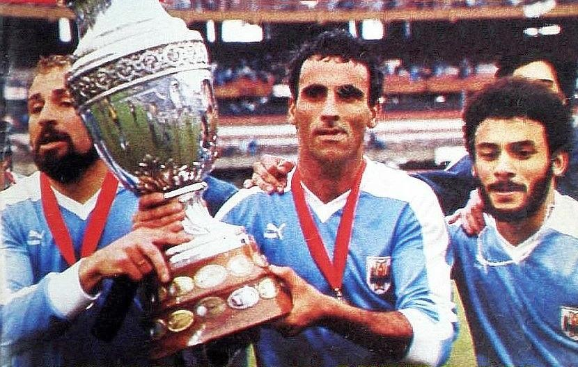 Players of Uruguay national team holding the Copa América trophy won after beating Chile in the final.